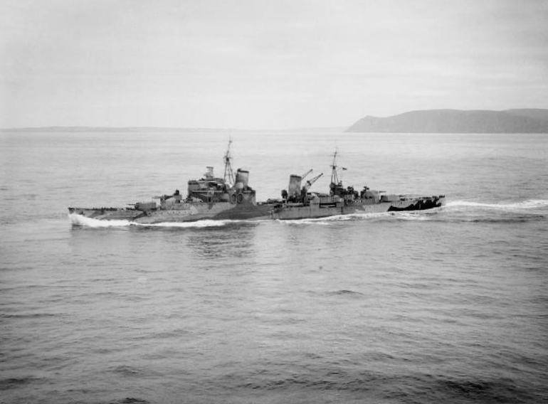 The Royal Navy Town-class cruiser HMS Sheffield (C24) underway near Scapa Flow, 28 October 1941.